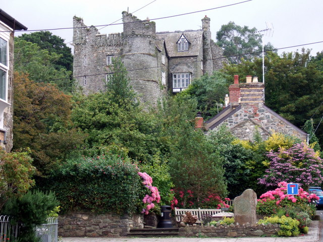 Castell Drefdraeth/Newport castle in summertime The view up from the crossroads at the top of Market Street shows how the castle dominates the small town below. Its melding of mediaeval and Victorian architecture gives it a curious and romantic appearance. Although it dates back originally to C13 there was considerable destruction and rebuilding over the centuries until Thomas Lloyd of Bronwydd grafted a dwelling house on to the ruins. The castle remains in private hands and is not open to the public.